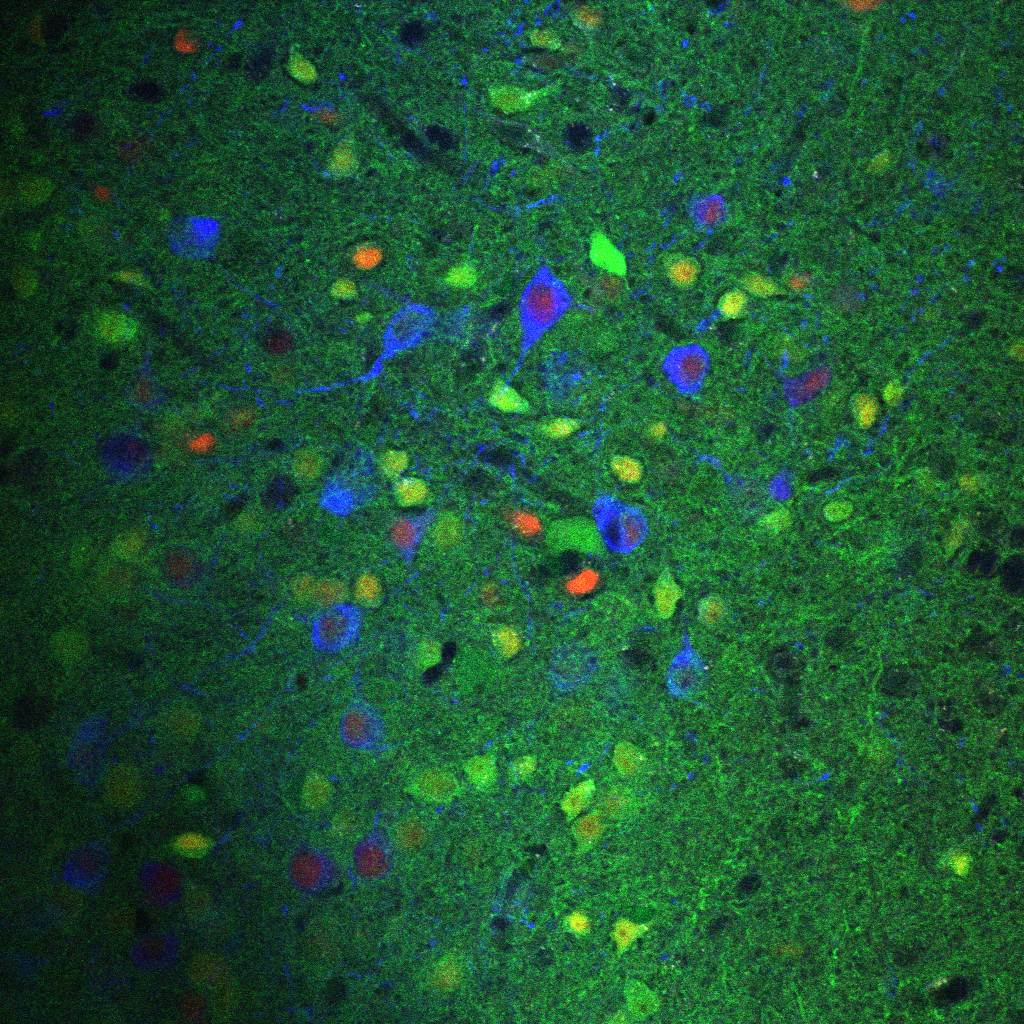 Picture of Gad65 (green), Gad67 (red), and Tyrosine Hydroxylase (blue) activity in the mouse brain.